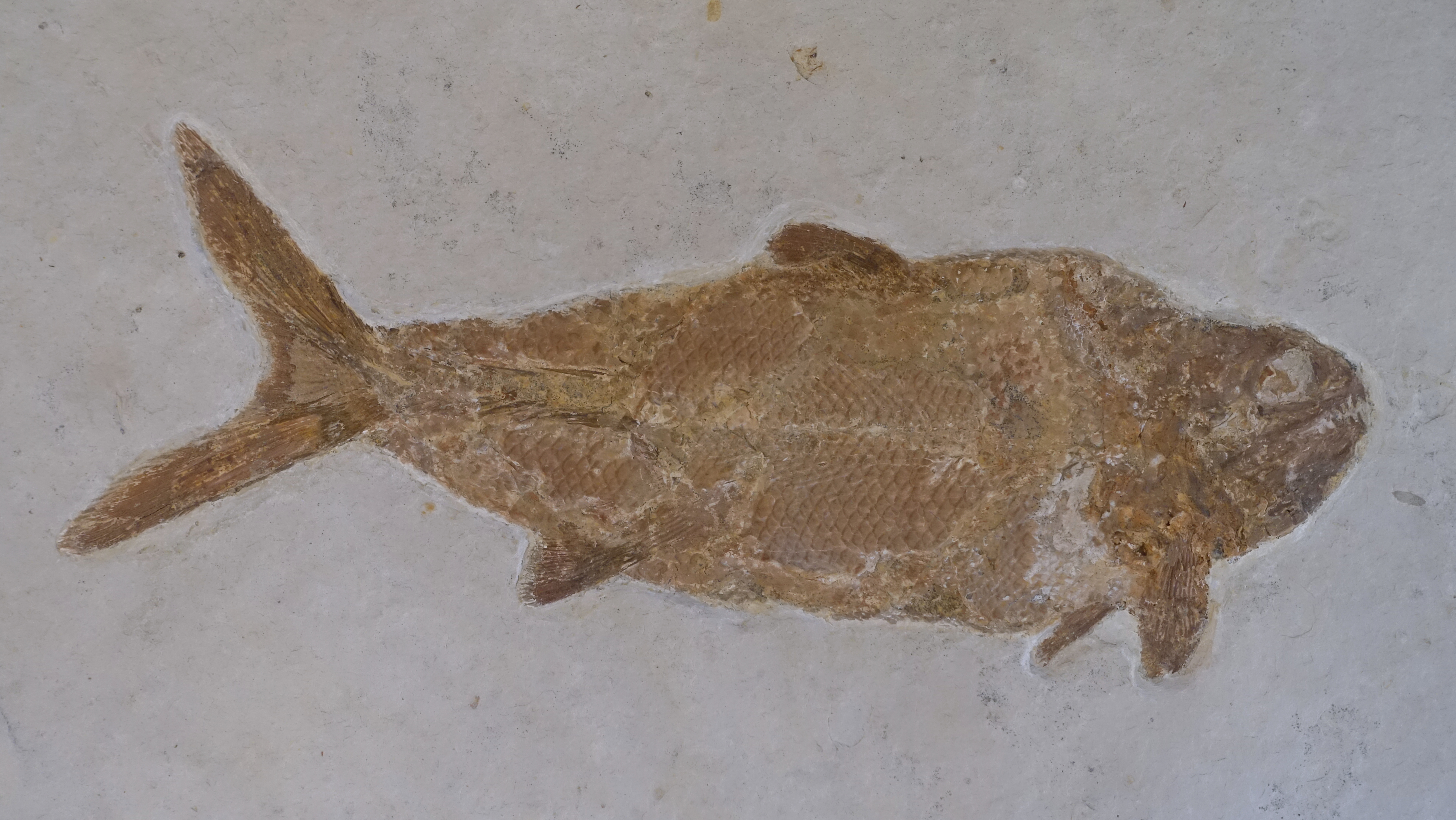 Exhibit in the Redpath Museum, McGill University - Montreal, Quebec, Canada.